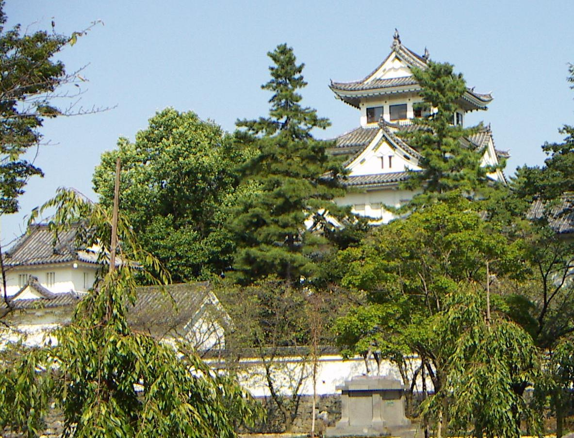 岐阜県大垣市にある大垣城。大野 一将による2004年9月9日の撮影。 Ogaki Castle in Ogaki Gifu, Japan. Contributor photographed this on September 9 2004.